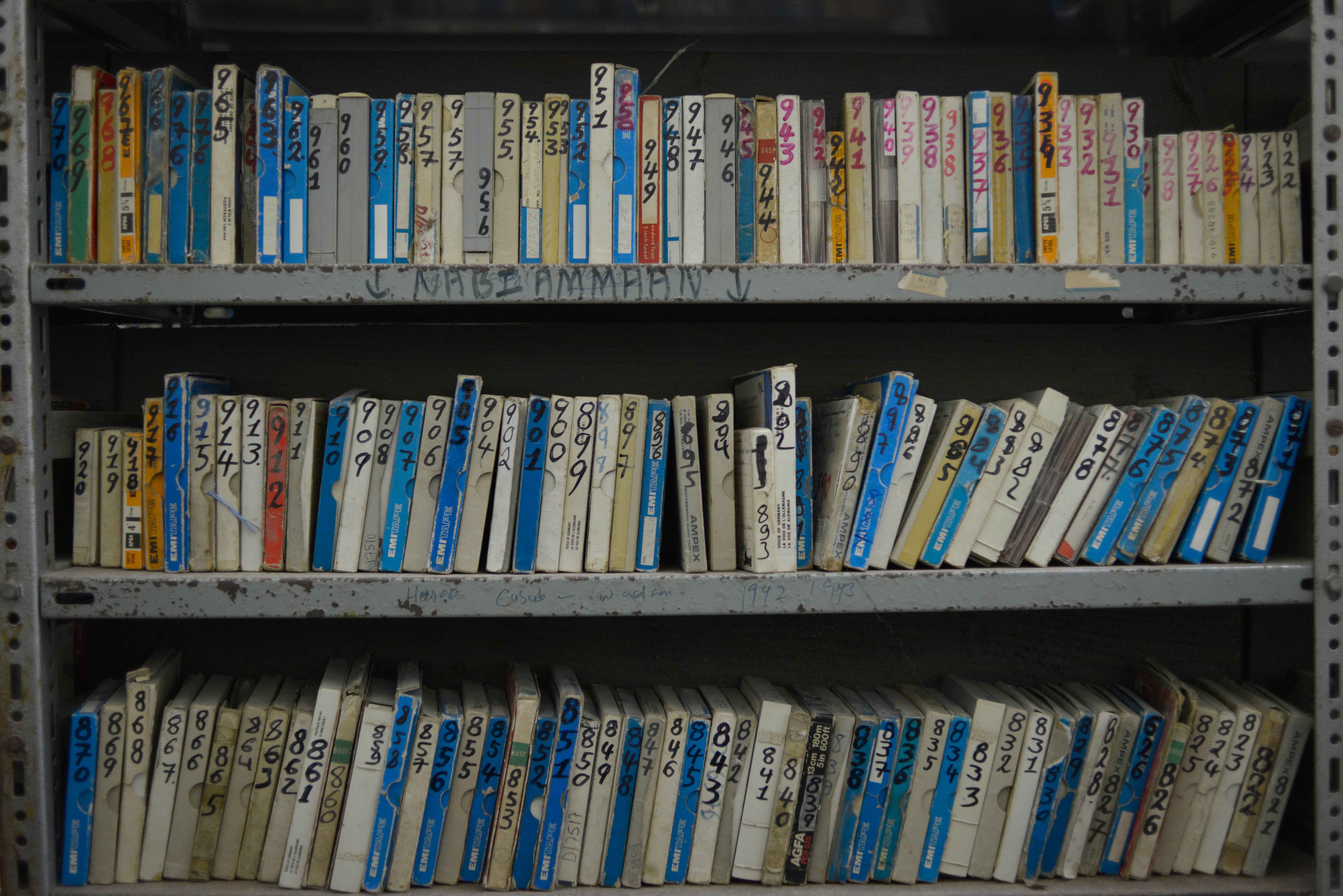 Old reels line the shelves in Radio Mogadishu's archive at the station's headquarters in Mogadishu, Somalia, on November 7. The Minister of Information, Abdullahi Elmoge Hirsi, today visited Radio Mogadishu in order to see the ongoing digitalization of the station's archive, which was kept largely intact for over two decades of civil war and is now being converted into digital files to ensure its continued survival. AU UN IST PHOTO / Tobin Jones